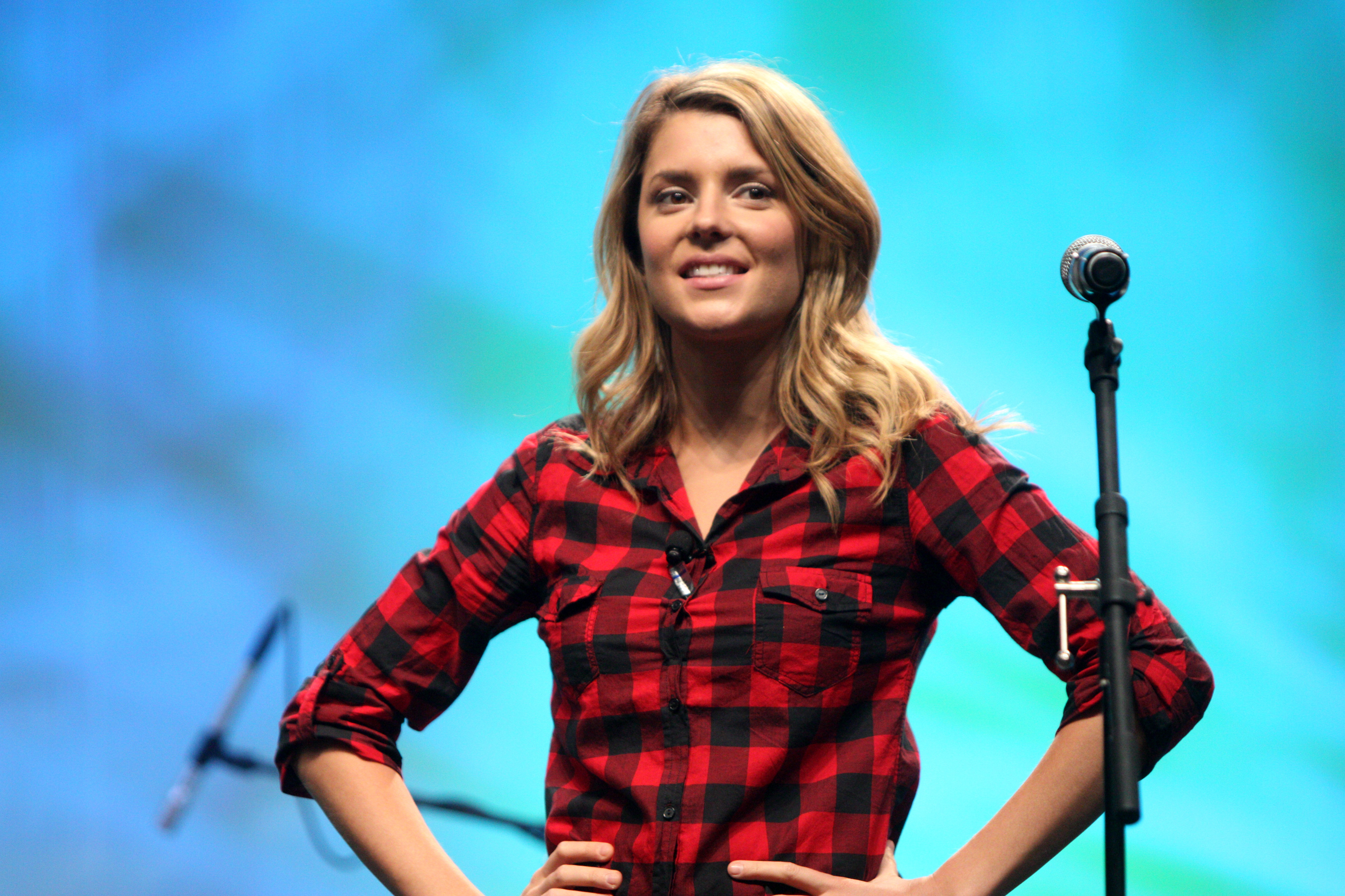 Daily Grace Helbig speaking at VidCon 2012 at the Anaheim Convention Center in Anaheim, California.